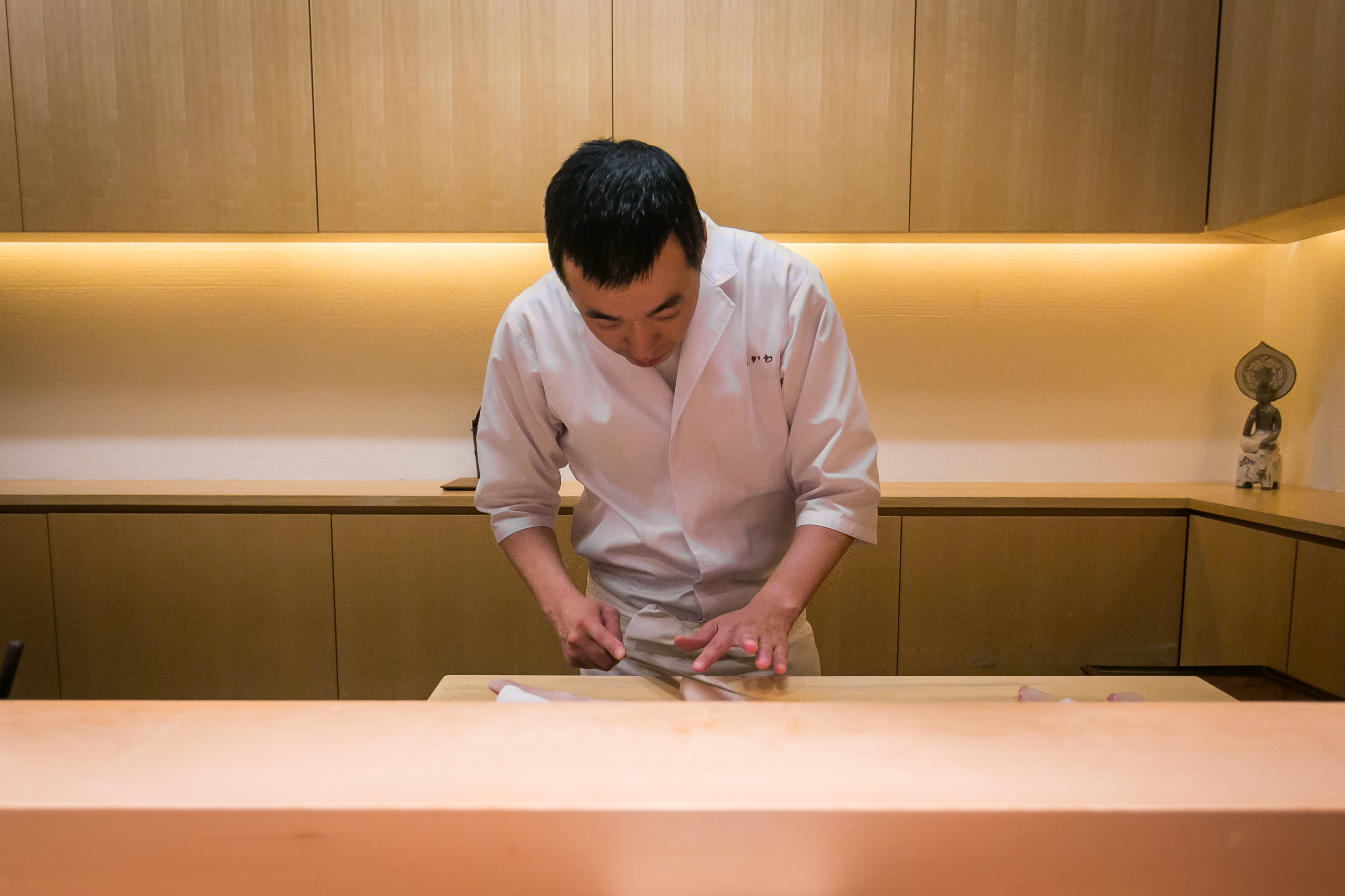 Kagurazaka Ishikawa, Tokyo, JPN Date Visited: December 20, 2013 City Foodsters Facebook | Twitter | Instagram